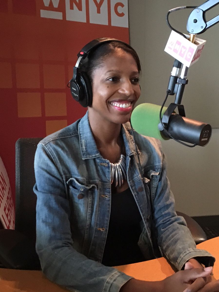 Political correspondent Keli Goff on WNYC, September 2016.